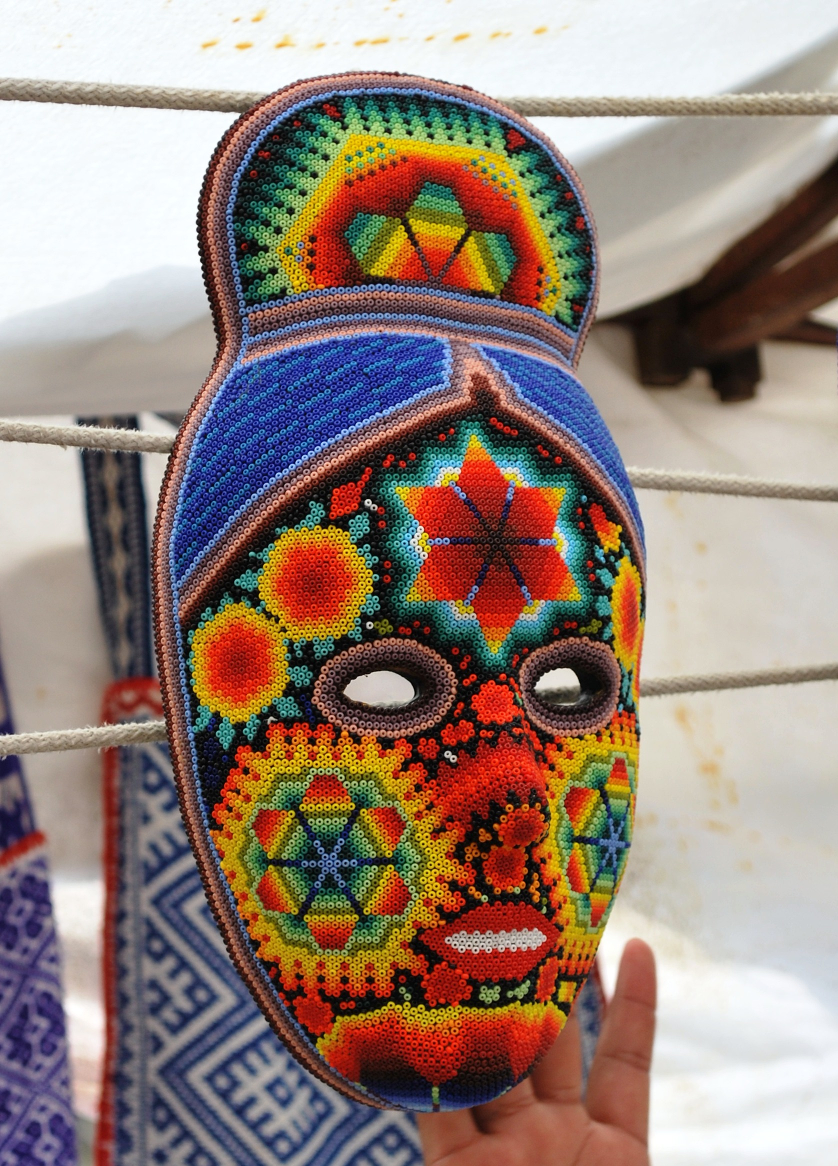 Huichol beadwork woman mask on sale in Tepotzotlan, Mexico State